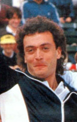 Argentine tennis players José Luis Clerc (left) and Guillermo Vilas celebrating the qualification to the Copa Davis finals after beating Great Britain in Buenos Aires.